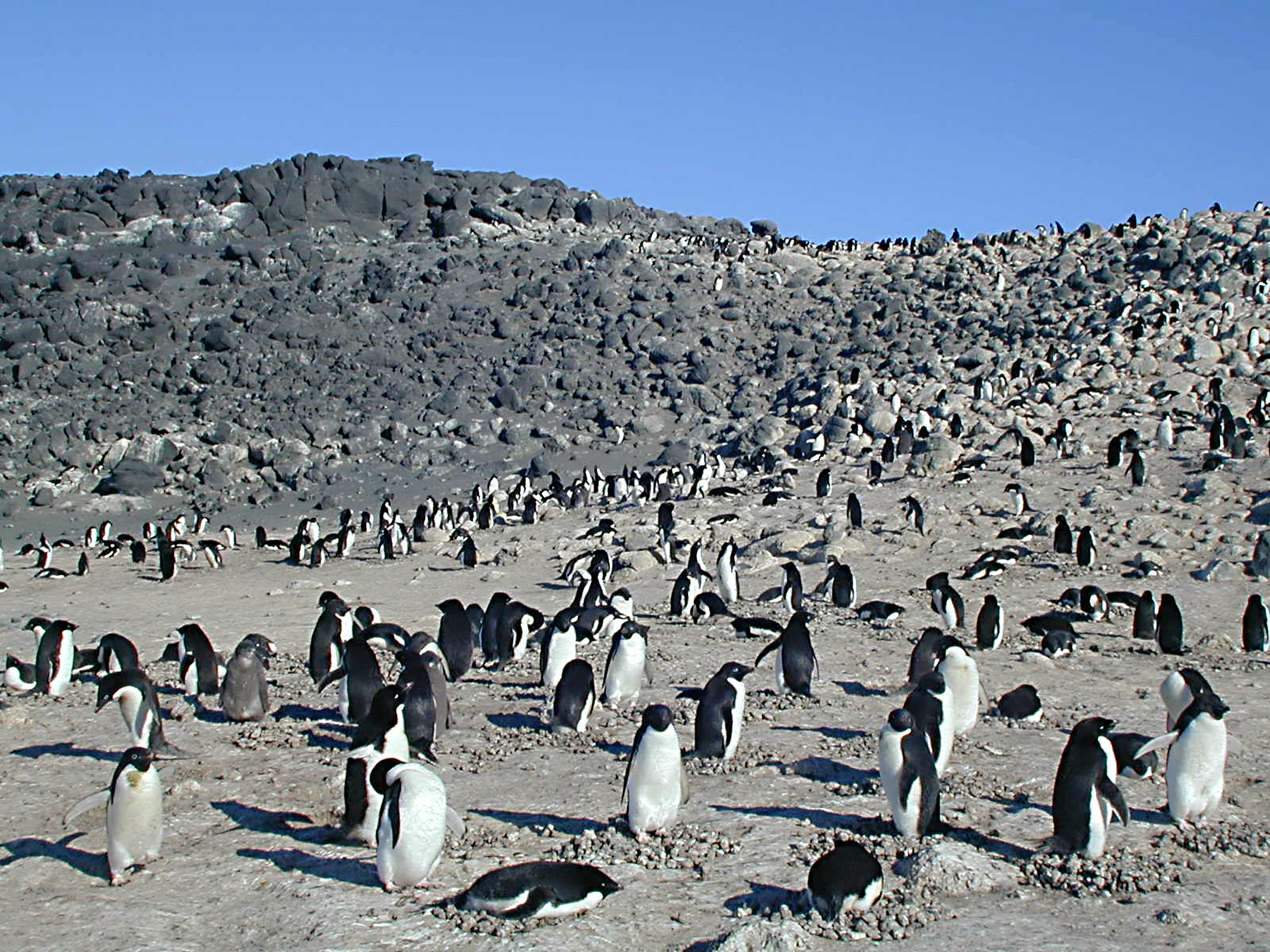 The colony of Adelie Penguin at Cape Royds on Ross Island, Antarctica